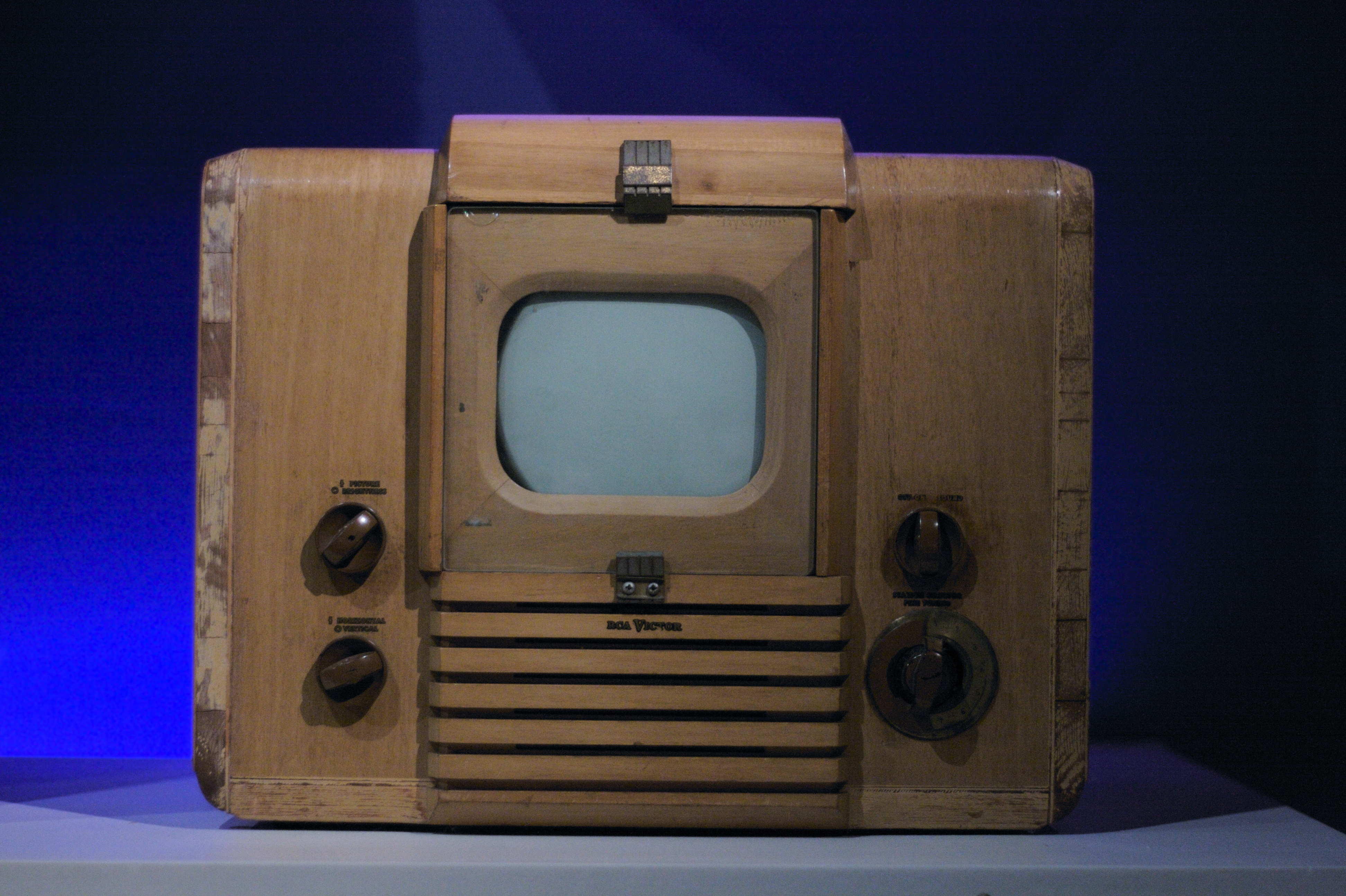 RCA 621TS Television Receiver (1946) with optional blonde cabinet, MoMI